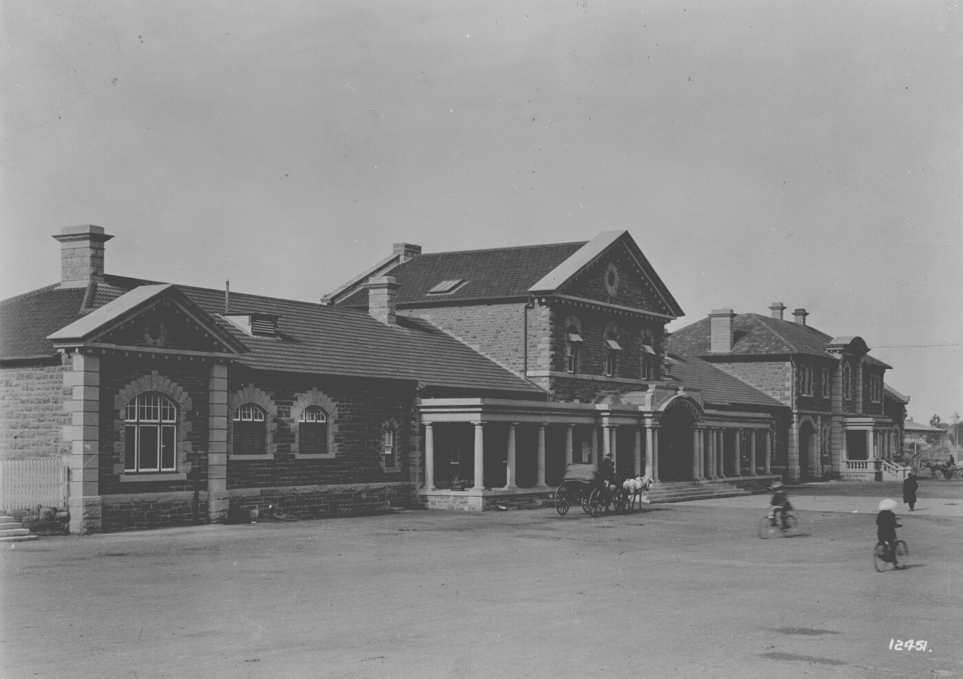 Entrance to Bloemfontein Station, c 1890, the year in which the station was built.